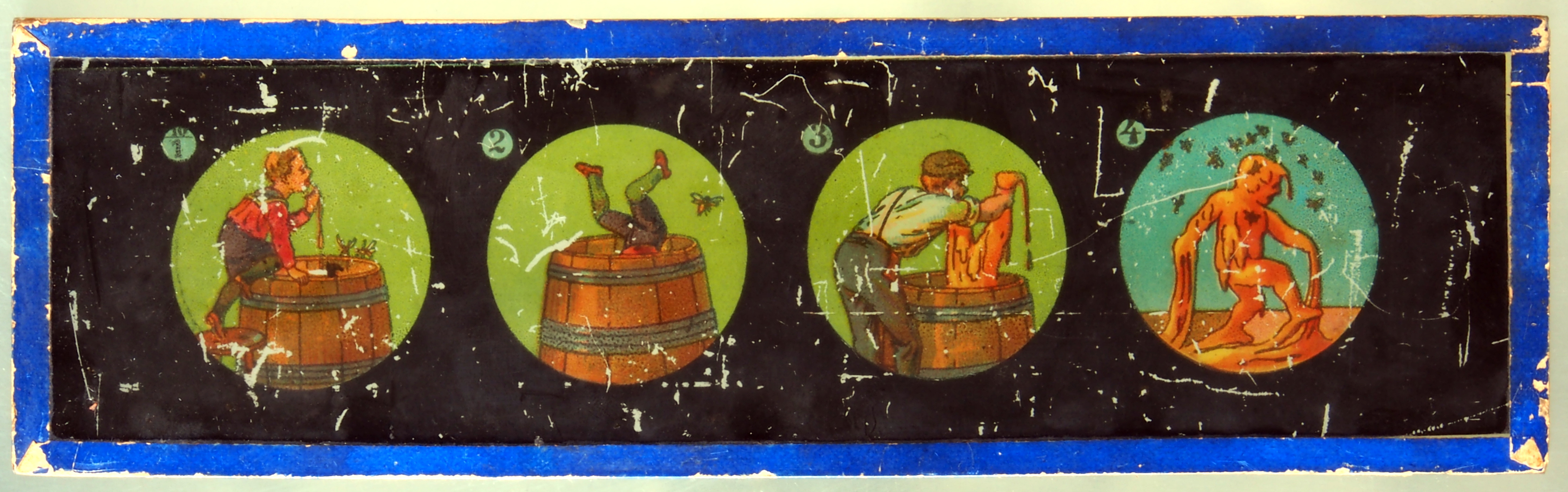 10 Story about a boy falling in a barrel of honey